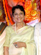 Tanuja with her daughters Kajol & Tanisha at Durga Puja celebrations